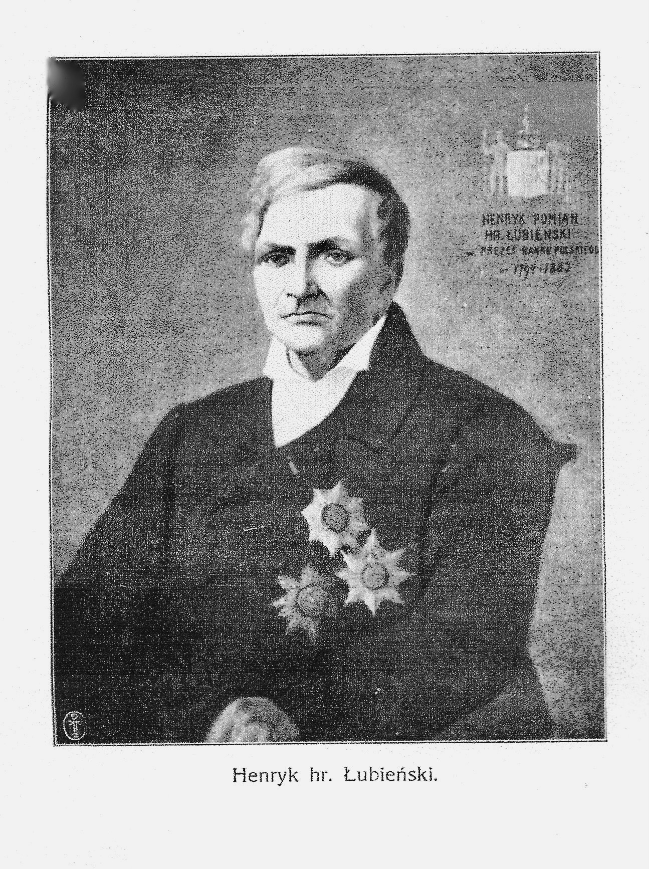 Portrait of Henryk Lubienski (1793-1883)